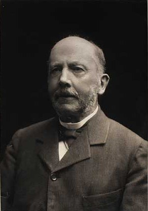 Carthon Christoffer Valdemar Nyholm (1829-1912), Danish jurist and politician, MP